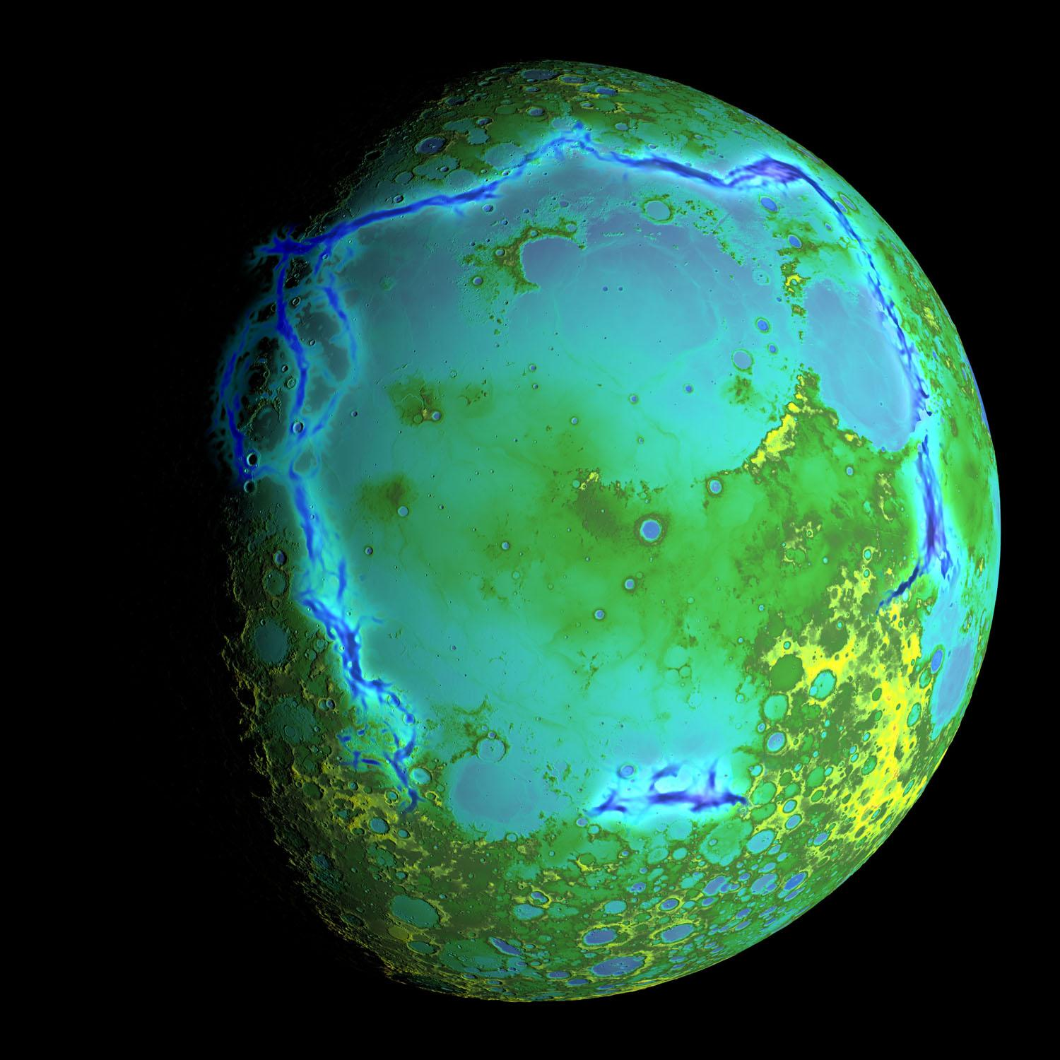 PIA18822: Gravity Gradients Frame Oceanus Procellarum October 1, 2014 Topography of Earth's moon generated from data collected by the Lunar Orbiter Laser Altimeter, aboard NASA's Lunar Reconnaissance Orbiter, with the gravity anomalies bordering the Procellarum region superimposed in blue. The border structures are shown using gravity gradients calculated with data from NASA's Gravity Recovery and Interior Laboratory (GRAIL) mission. These gravity anomalies are interpreted as ancient lava-flooded rift zones buried beneath the volcanic plains (or maria) on the nearside of the Moon. Launched as GRAIL A and GRAIL B in September 2011, the probes, renamed Ebb and Flow, operated in a nearly circular orbit near the poles of the moon at an altitude of about 34 miles (55 kilometers) until their mission ended in December 2012. The distance between the twin probes changed slightly as they flew over areas of greater and lesser gravity caused by visible features, such as mountains and craters, and by masses hidden beneath the lunar surface. The twin spacecraft flew in a nearly circular orbit until the end of the mission on Dec. 17, 2012, when the probes intentionally were sent into the moon's surface. NASA later named the impact site in honor of late astronaut Sally K. Ride, who was America's first woman in space and a member of the GRAIL mission team. GRAIL's prime and extended science missions generated the highest-resolution gravity field map of any celestial body. The map will provide a better understanding of how Earth and other rocky planets in the solar system formed and evolved. The GRAIL mission was managed by NASA's Jet Propulsion Laboratory (JPL) in Pasadena, California, for NASA's Science Mission Directorate in Washington. The mission was part of the Discovery Program managed at NASA's Marshall Space Flight Center in Huntsville, Alabama. GRAIL was built by Lockheed Martin Space Systems in Denver. For more information about GRAIL, please visit